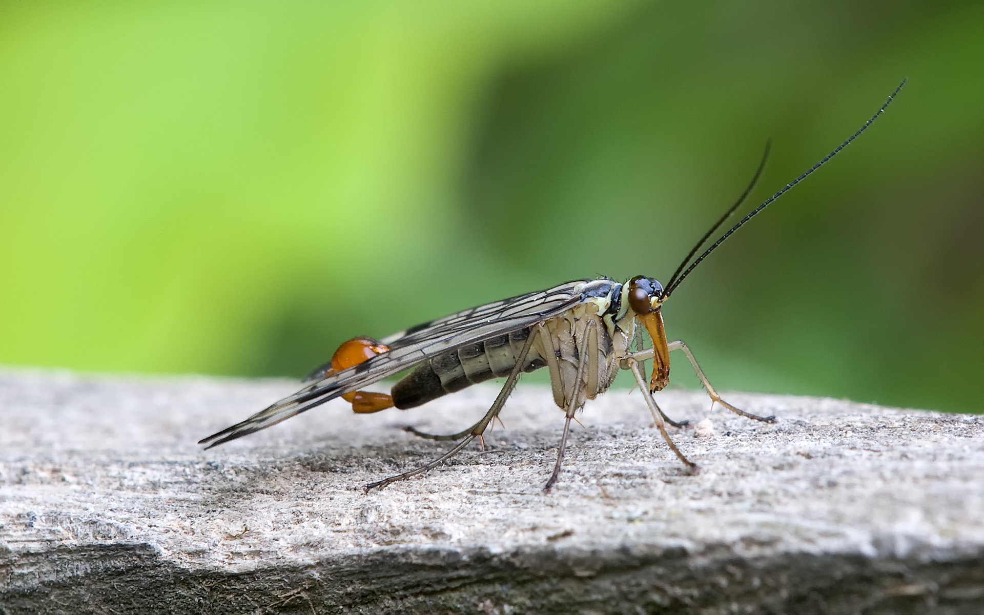 Scorpion Fly (Panorpa communis) Panorpa is a genus of scorpionflies that is widely dispersed in the Northern hemisphere.